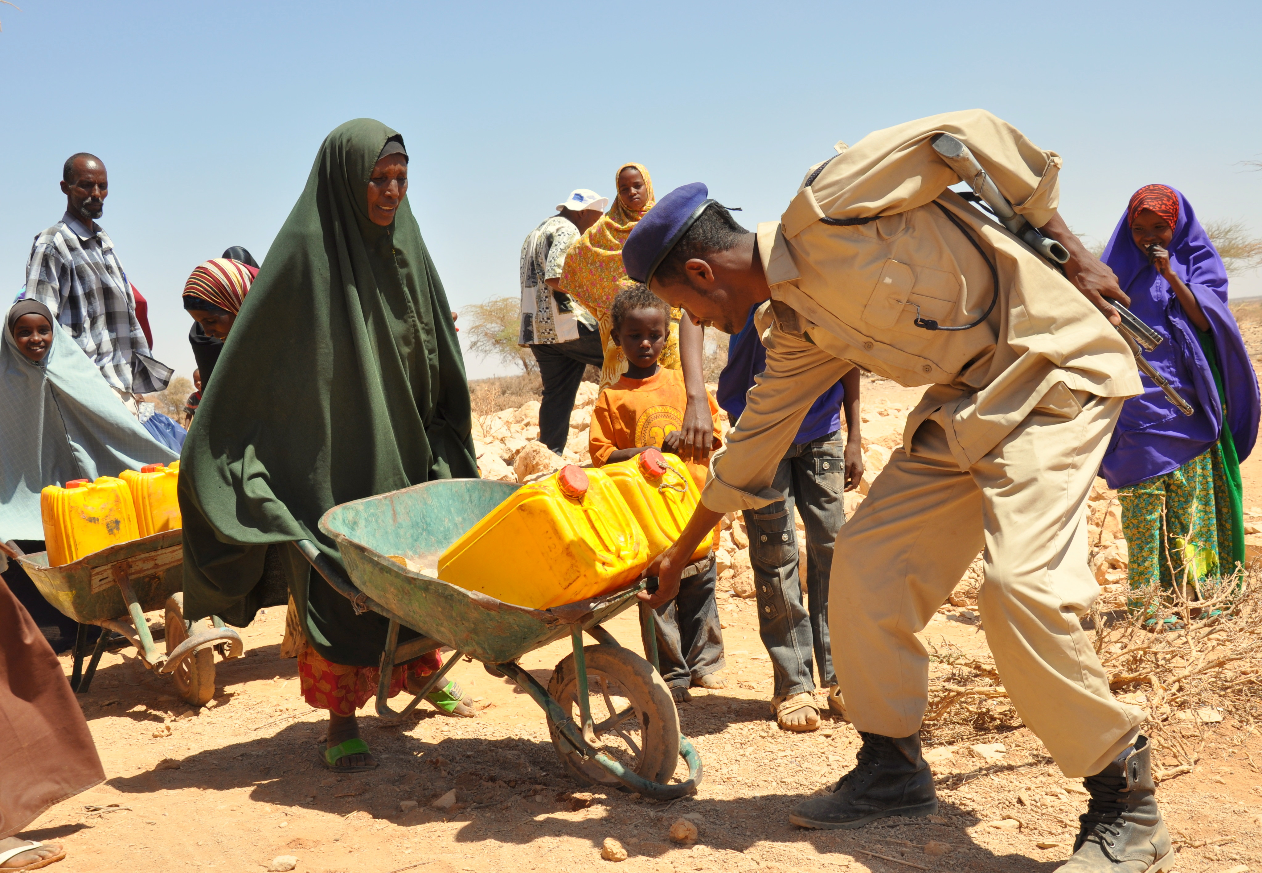 A Somaliland policeman helps a woman take her jerry cans home from the water trucking site